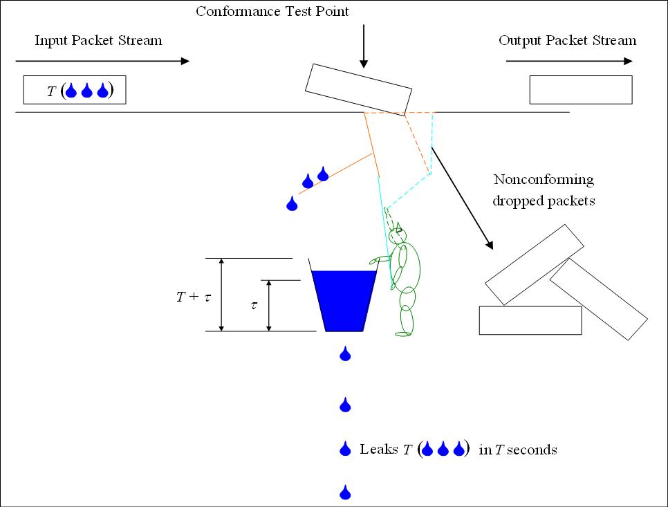 Drawing of leaky bucket as a meter used in a policing function